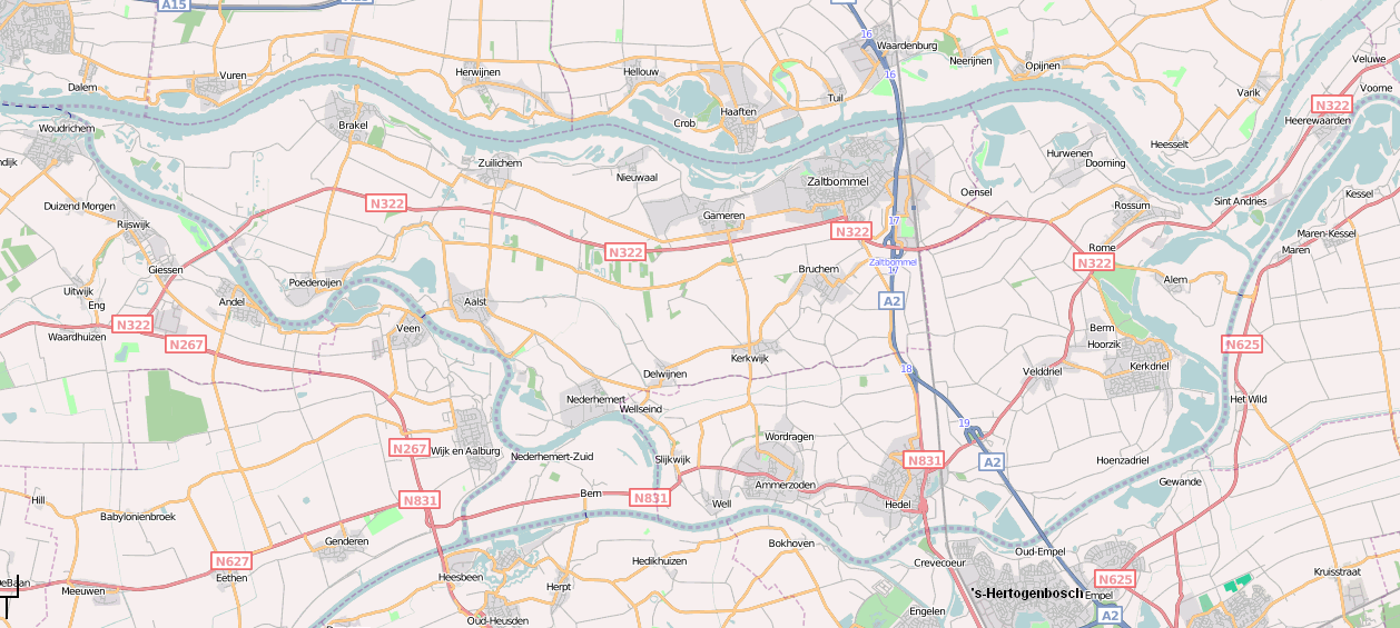 Bommelerwaard